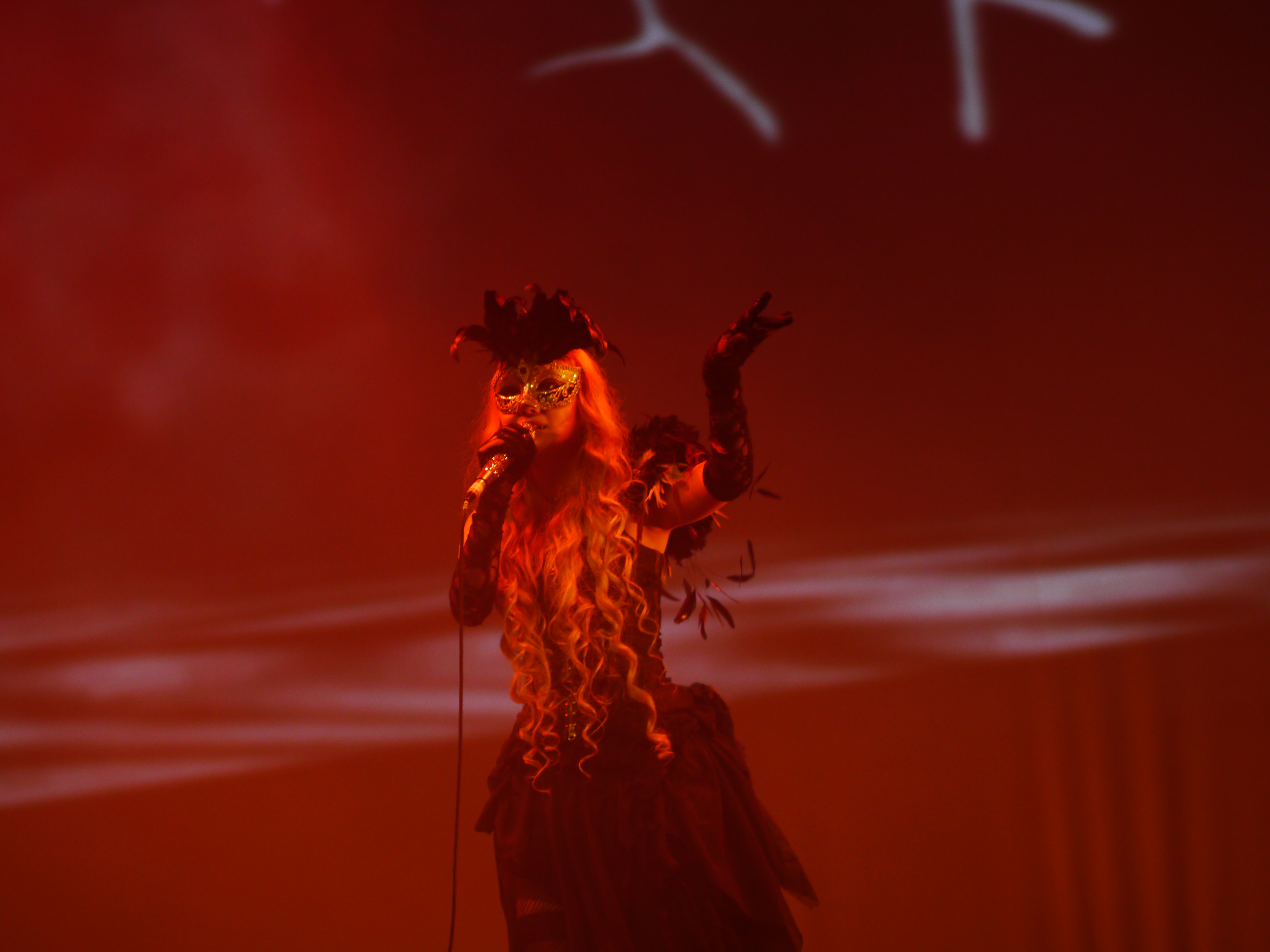 Mang'Azur festival of Toulon - official site